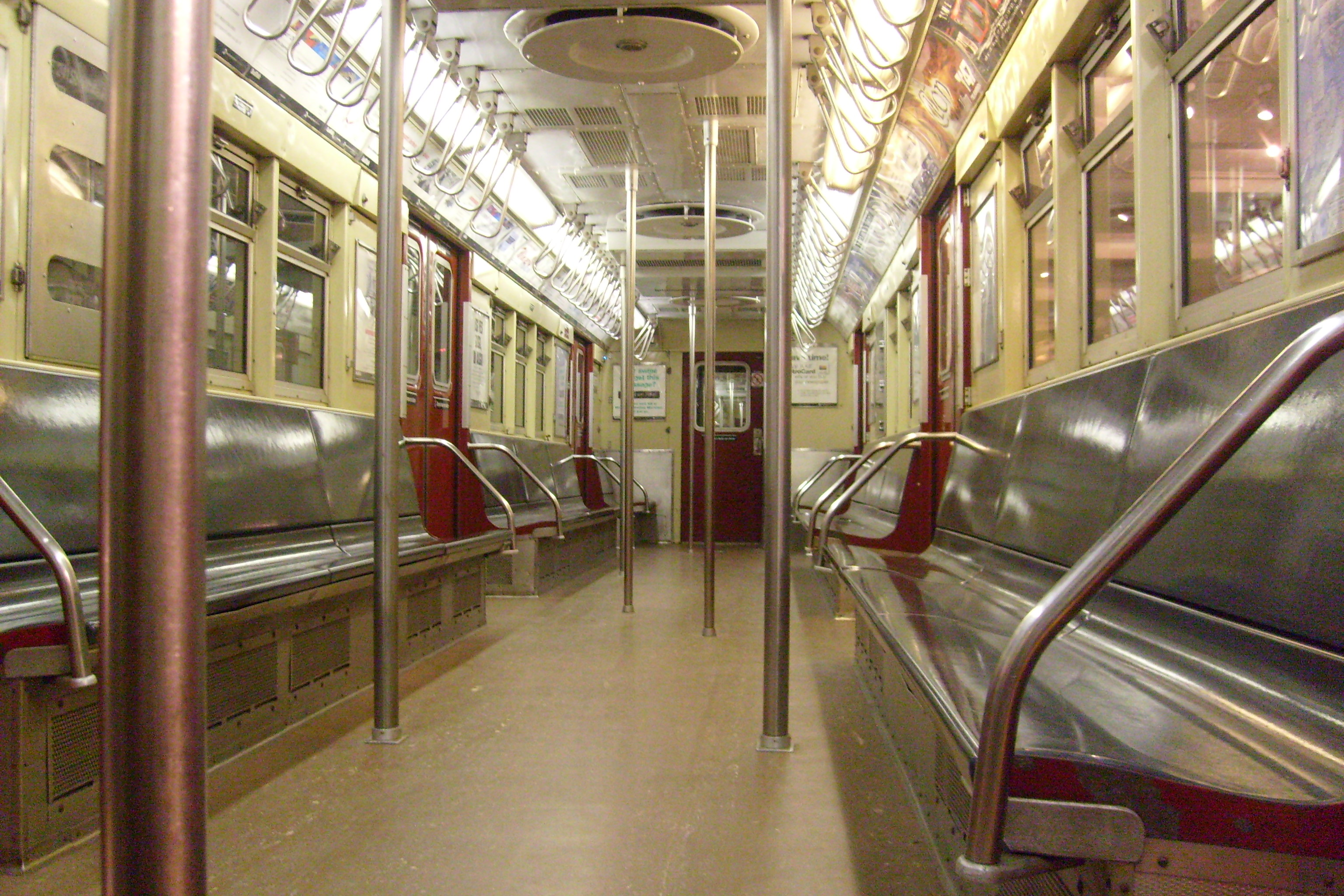 R33 interior view. R26 to R36 looks similar.